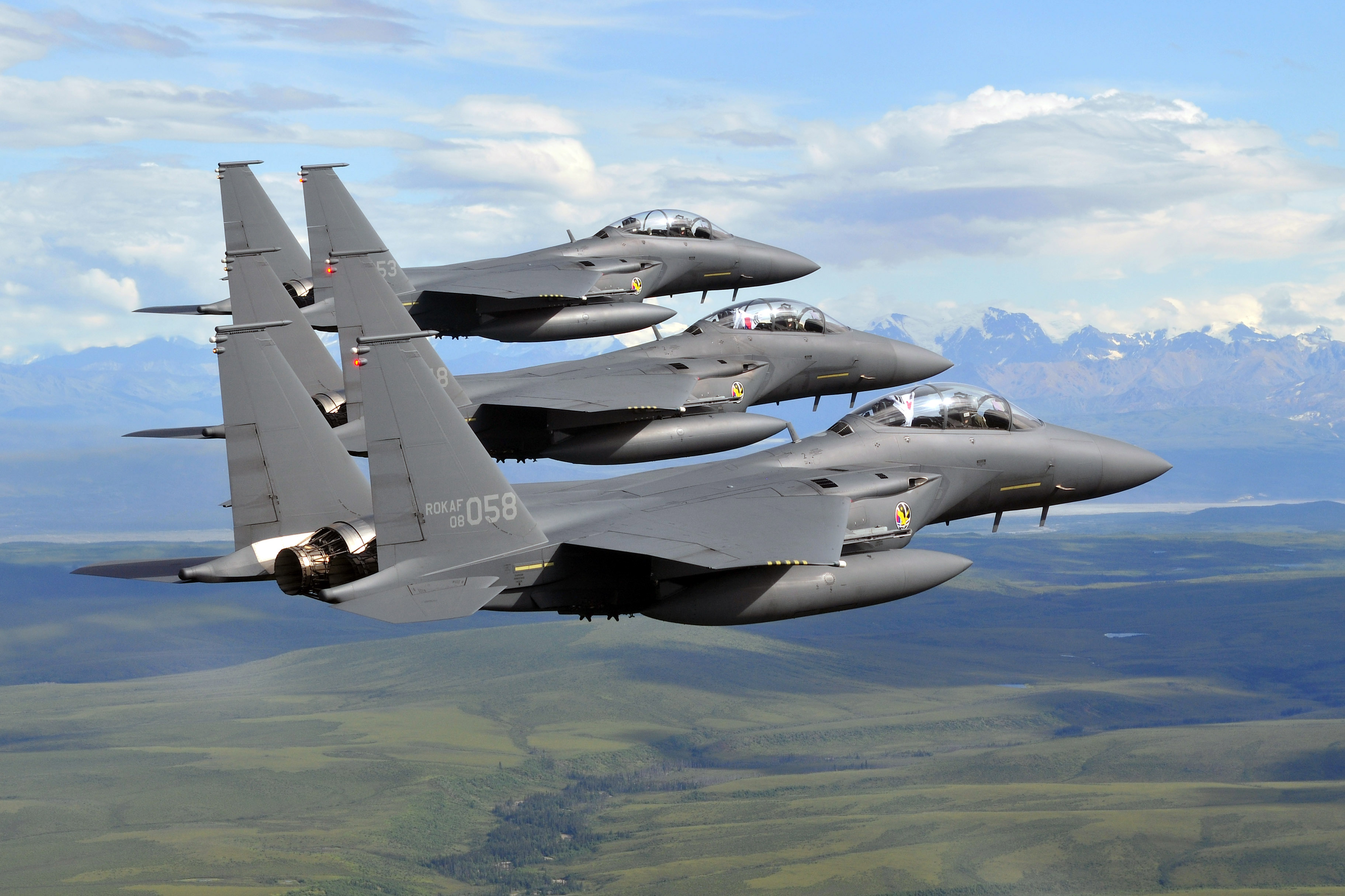 Korean Air Force participates in 'Red Flag Alaska' Training